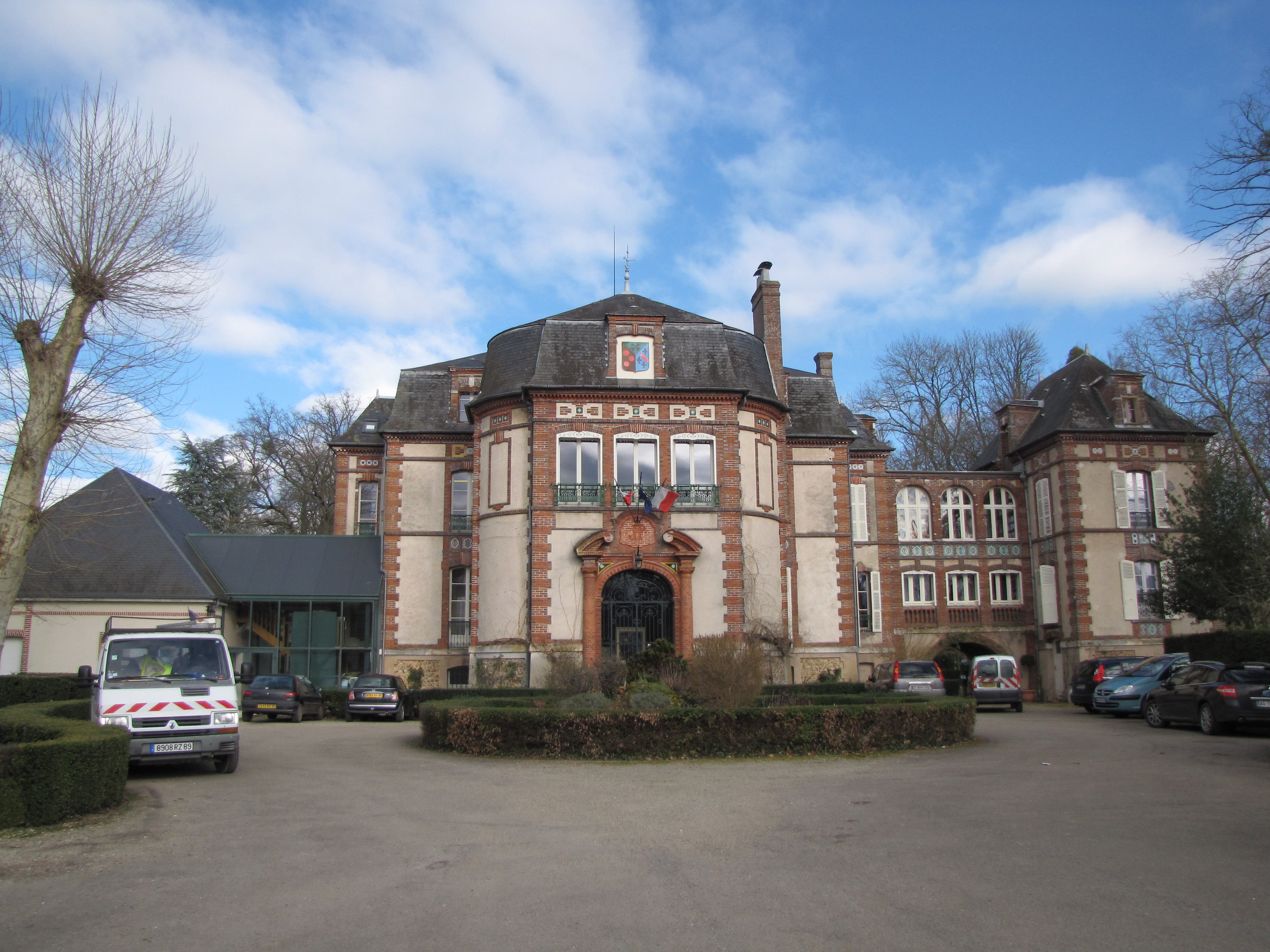 Charny, Yonne, Bourgogne, France. Town hall , installed in an old castle.